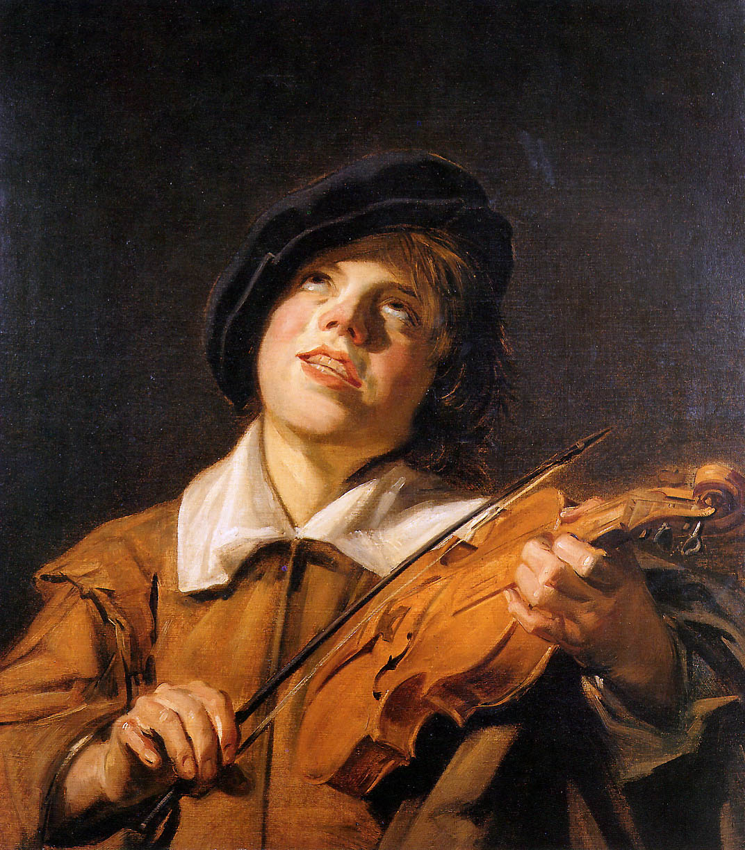 "Violinist" by Frans Hal